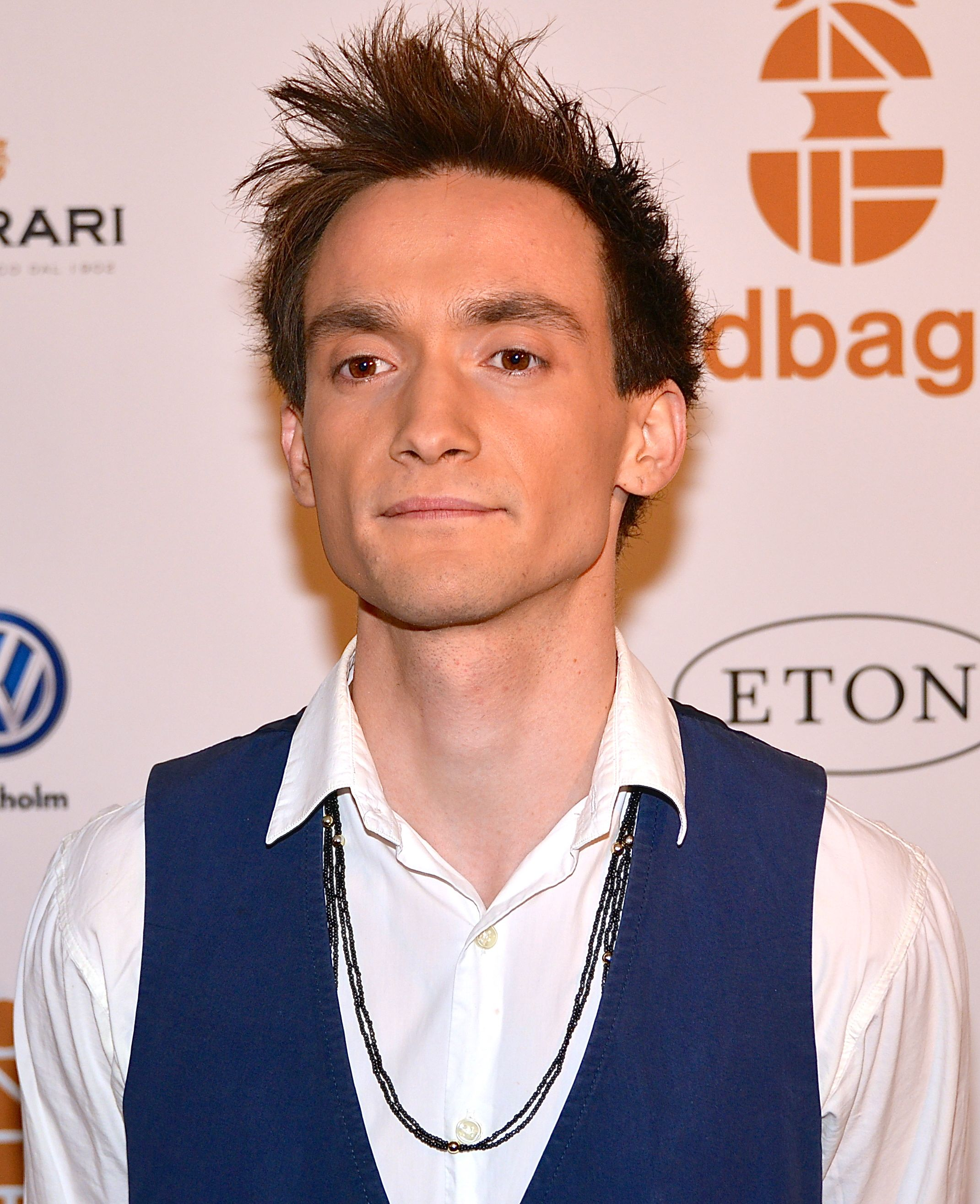 Samuel Haus on Guldbaggegalan January 21, 2013 at Cirkus in Stockholm.